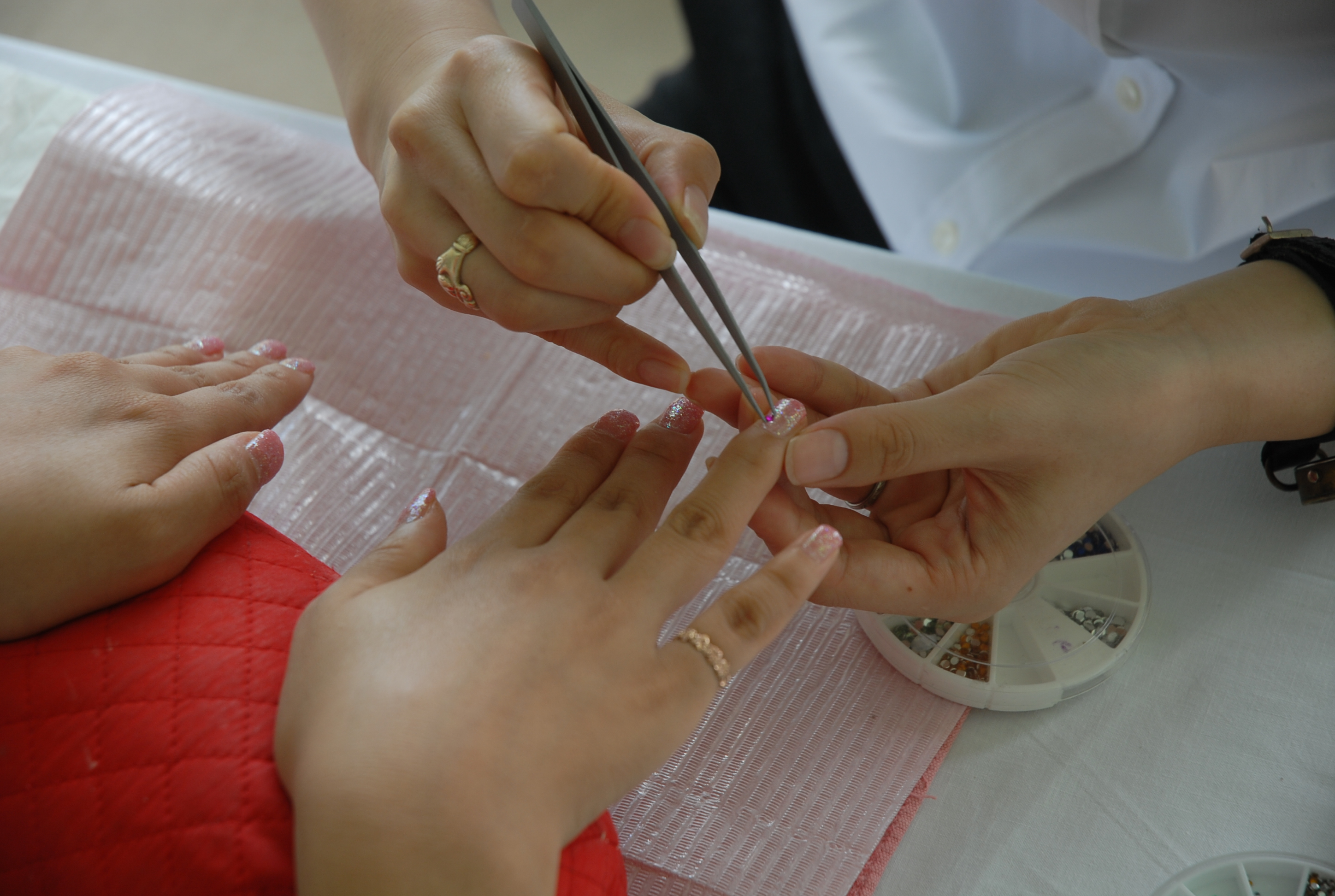 The nail salon Renault Kangoo Jamboree in Fujiyoshida, Yamanashi, Japan.